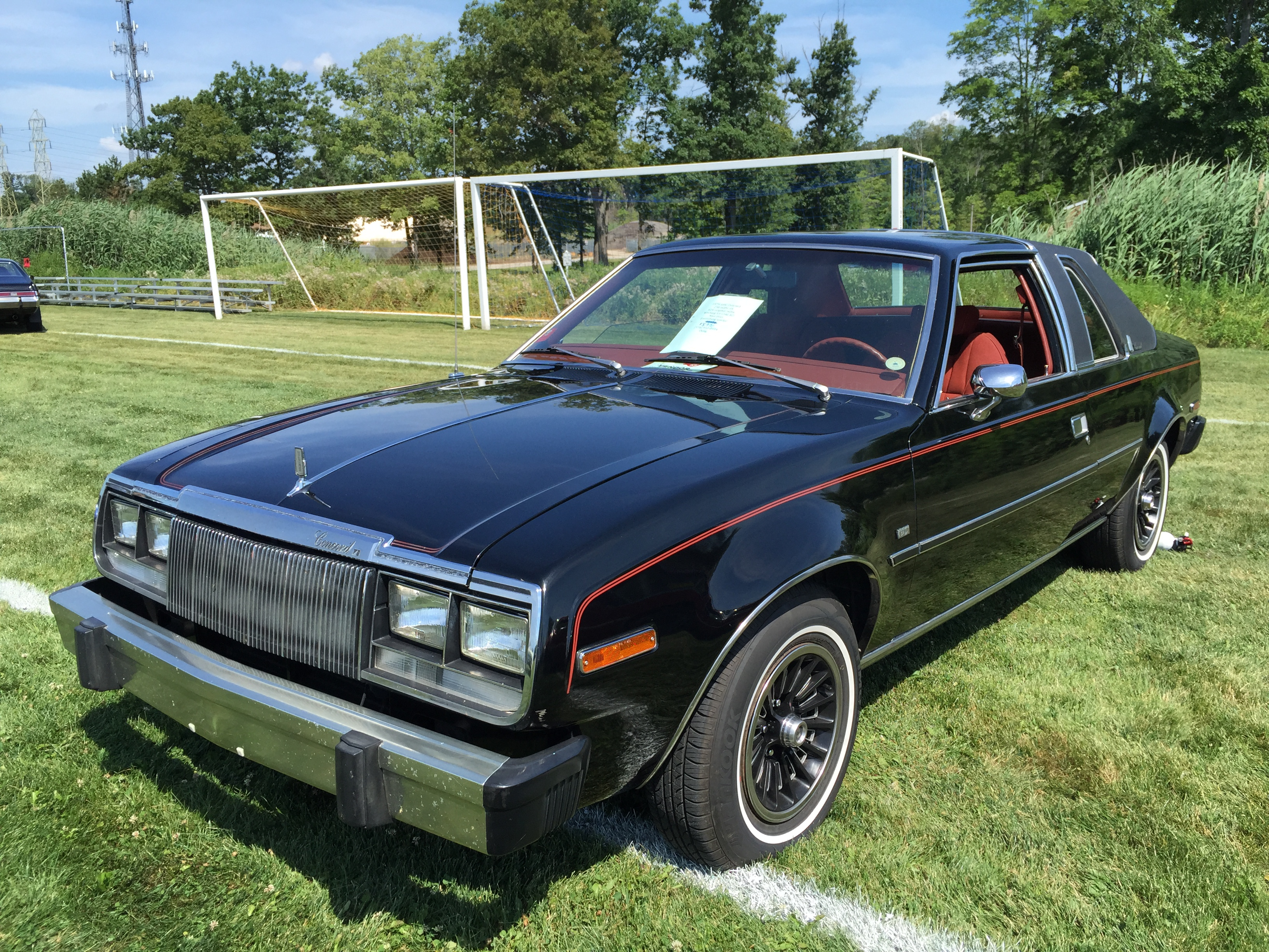 1979 AMC Concord two-door sedan, an innovative "luxury" compact built by American Motors Corporation. This D/L model is finished in black paint with standard vinyl roof cover and a contrasting red standard plush upholstered and trimmed interior. Picture taken at the American Motors Owners Association (AMO) annual convention that was held July 2015 near Cleveland, Ohio.